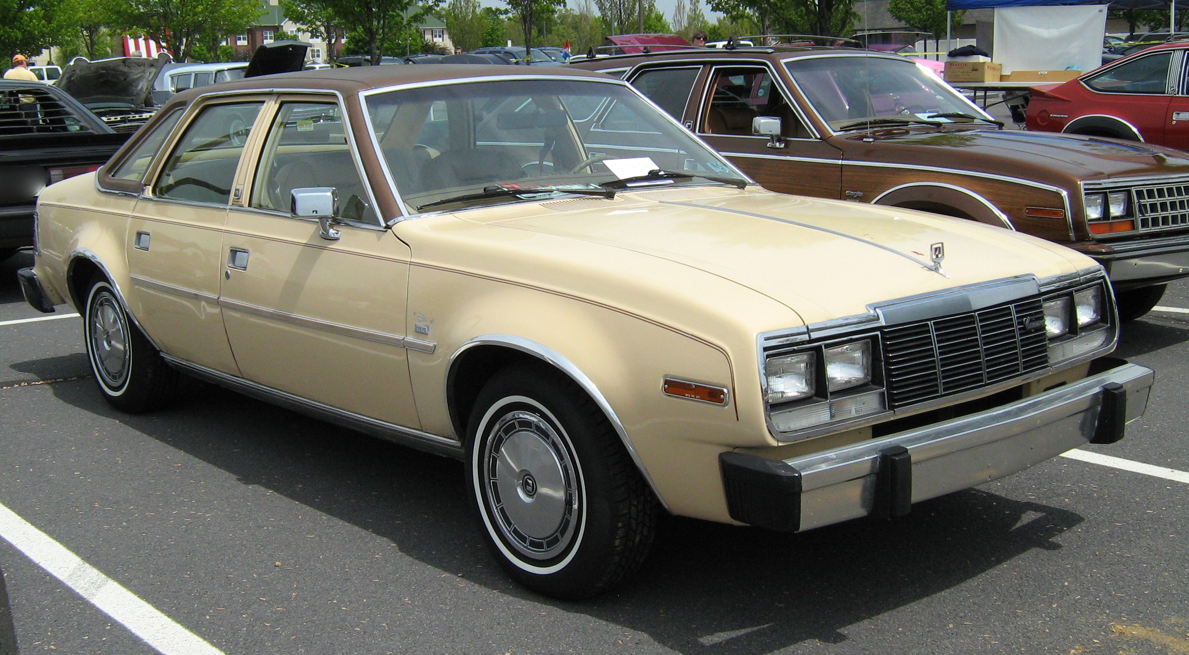 1981 AMC Concord four-door sedan - finished in Cameo Tan (paint code: 0K) with standard vinyl roof cover. Picture taken at the "2010 AMC Invasion of Gettysburg" (Pennsylvania).